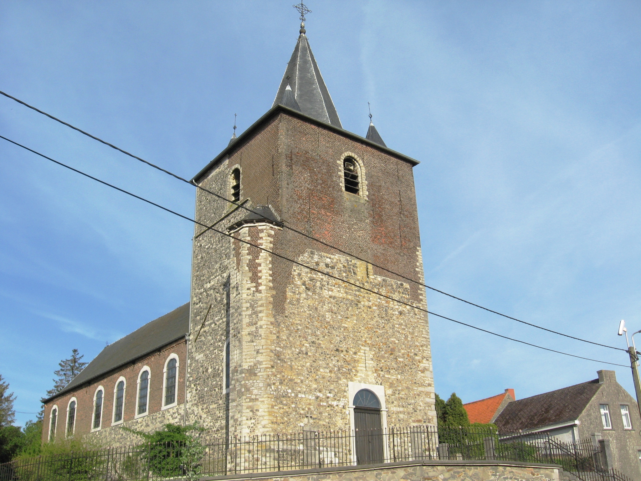 Church of the Assumption of Our Lady in Avernas-le-Bauduin, Hannut, Liège, Belgium